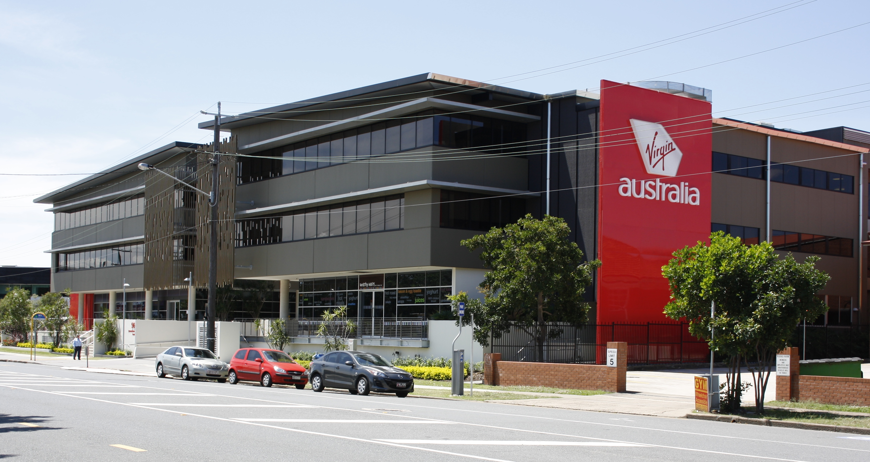 Virgin Australia headquarters, Bowen Hills, Qld